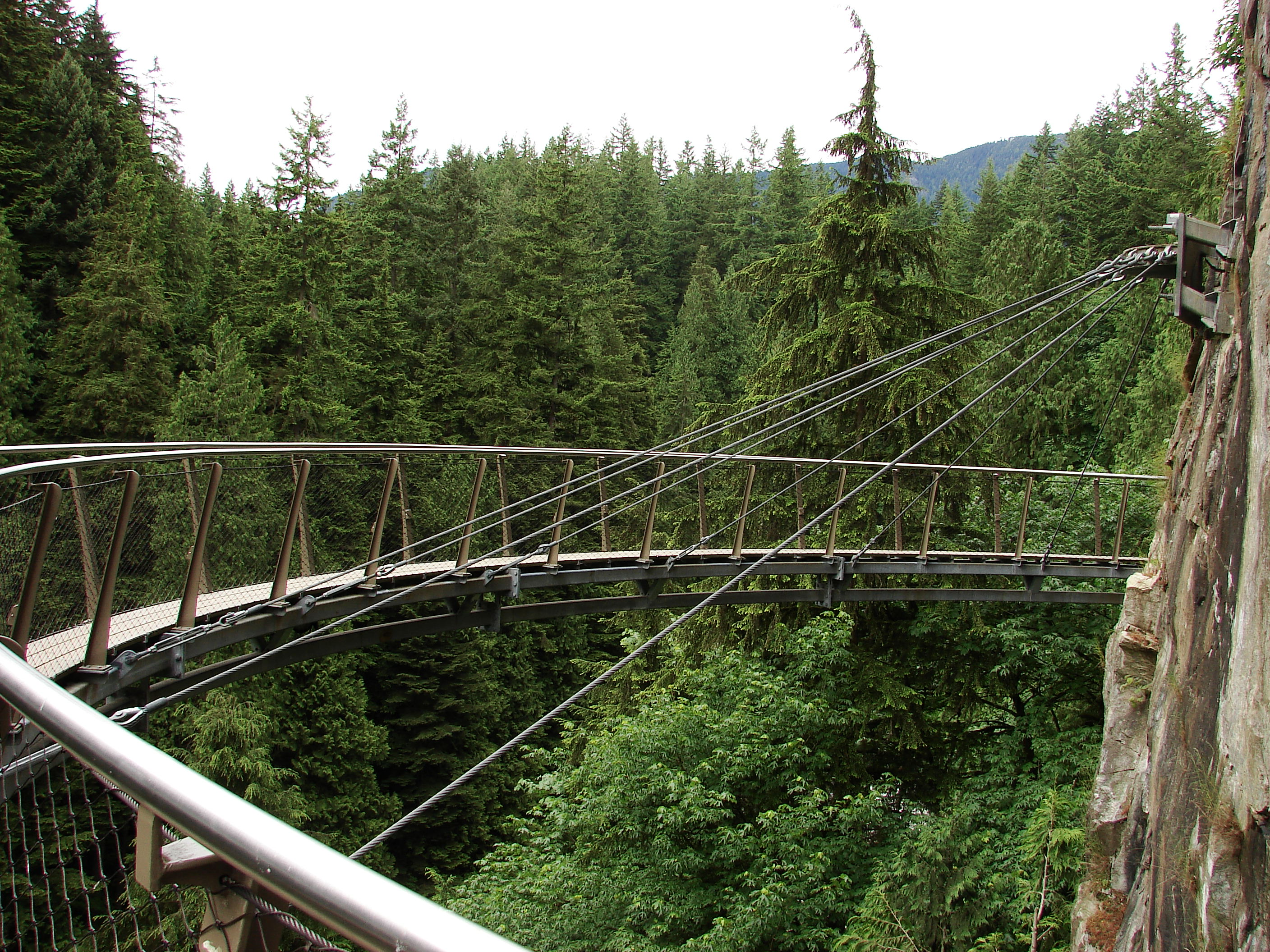 The Cliff Walk at Capilano Suspension Bridge in Vancouver, BC.